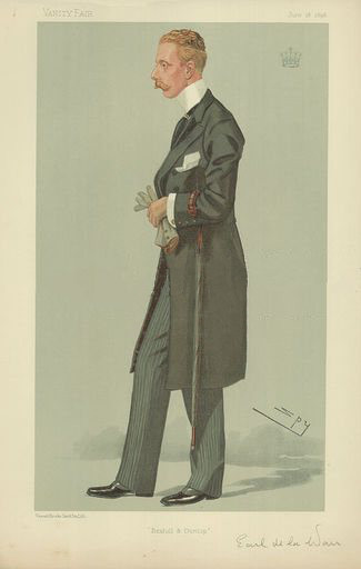 Statesmen No.673: Caricature of Earl De La Warr. Caption reads: "Bexhill and Dunlop"